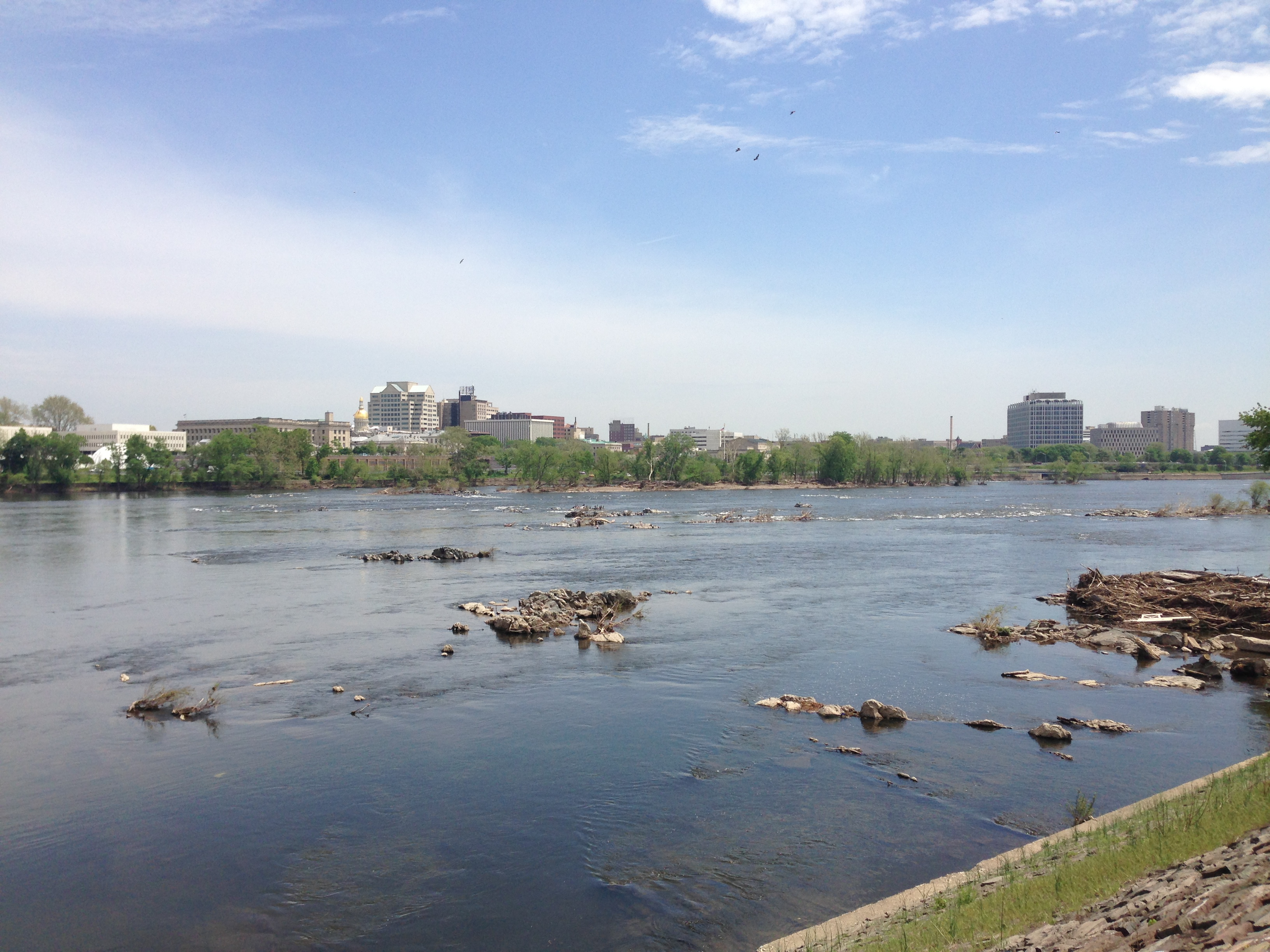 View of the "Falls of the Delaware" and downtown Trenton, New Jersey from Morrisville, Pennsylvania